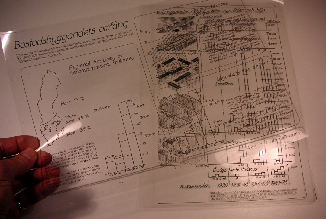 Overheadfilm